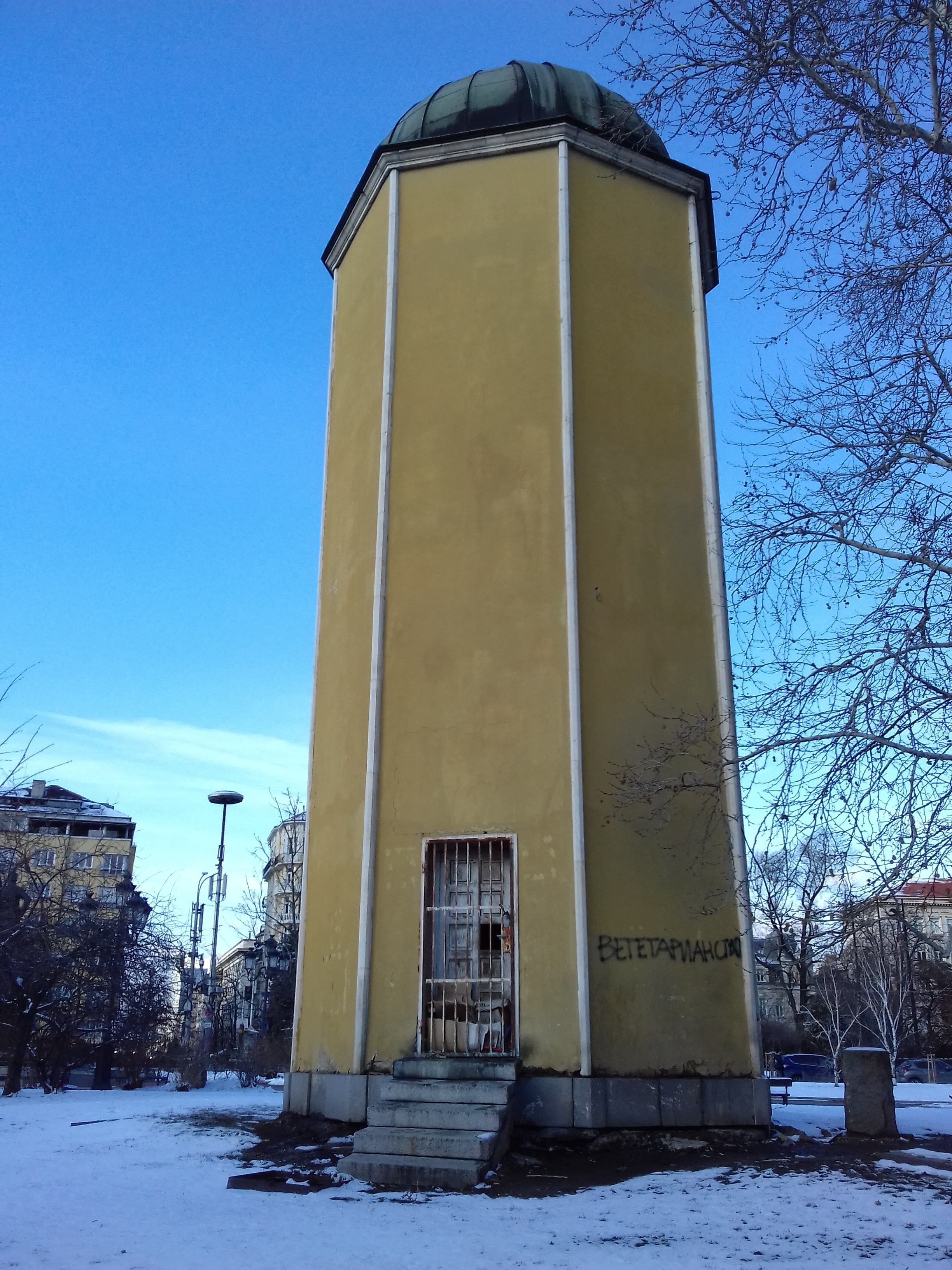 Main Astronomical Point of Bulgaria in Sofia.